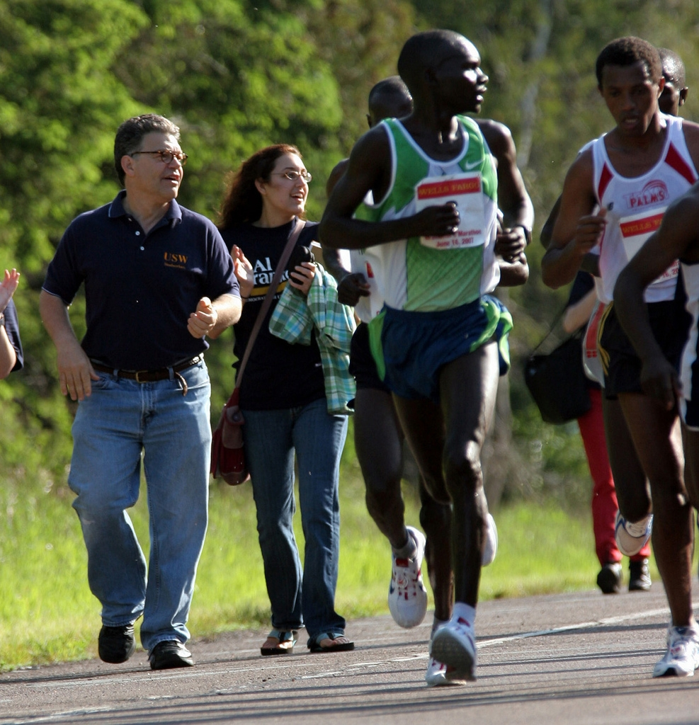 Al Franken, left, a canidate running for US Senate, in Minn., runs along the side of the road, on an isolated section of raceway, just south of Two Harbors, Minn, on the way to Duluth, Minn., on Saturday June 16, 2007, as the lead runner in Grandma's Marathon, Wesly Ngetich, center in green, of Kenya runs past him. Wesly Ngetich, of Kenya, one of the more than 9,000 entrants, ran the 31st Grandma's Marathon in the heat and humity along Minnesota's North Shore of Lake Superior. Ngetich finished the race from Two Harbors to Duluth in two hours, 15 minutes, 55 seconds. (AP PHOTO/Paul M. Walsh)